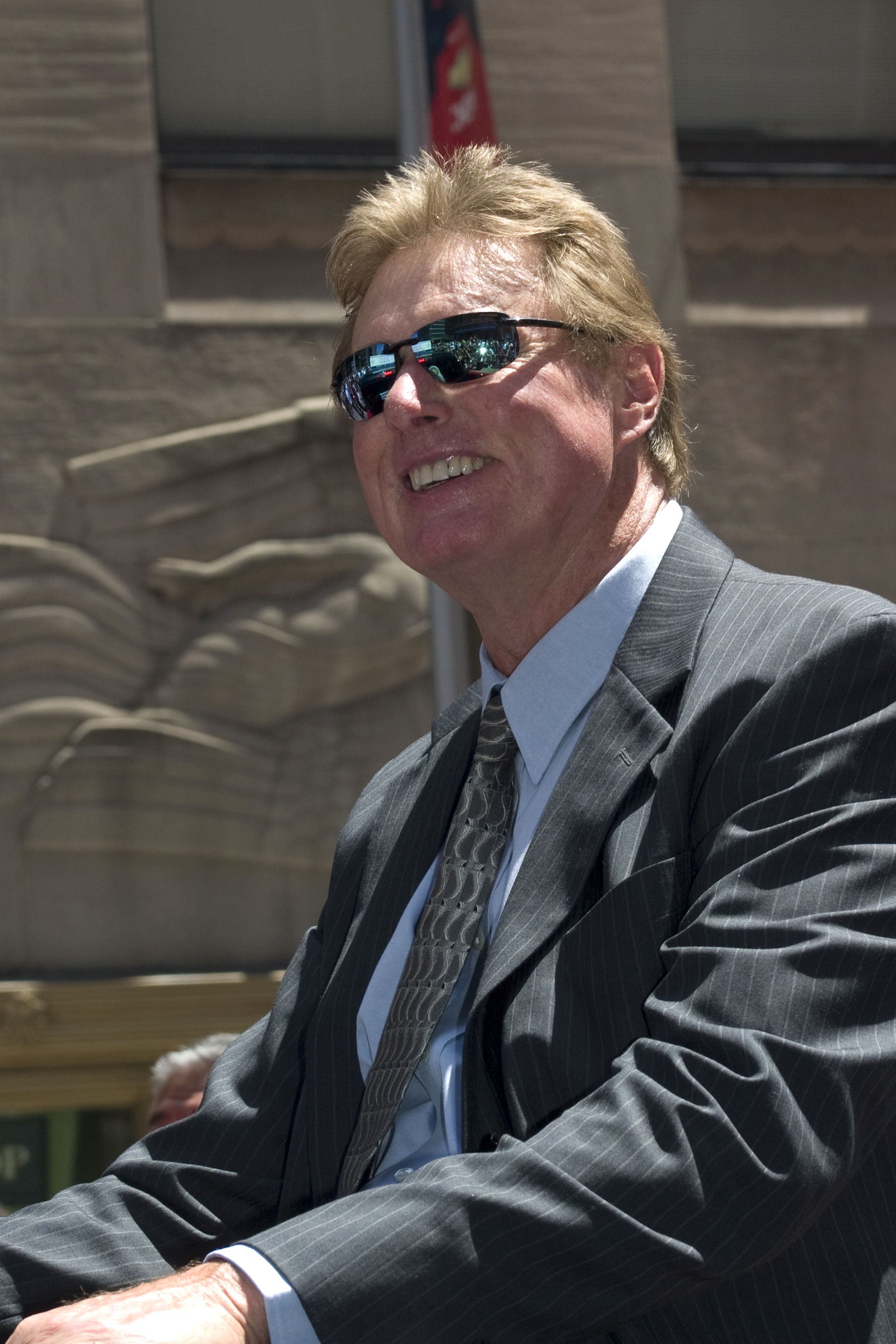 Steve Carlton. © Rubenstein, photographer Martyna Borkowski